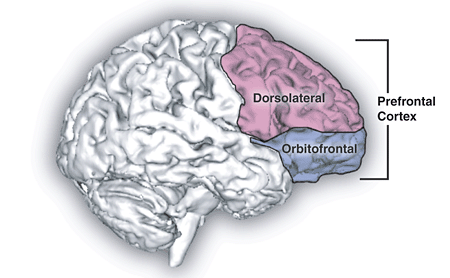 Sagittal human brain with cortical regions delineated.